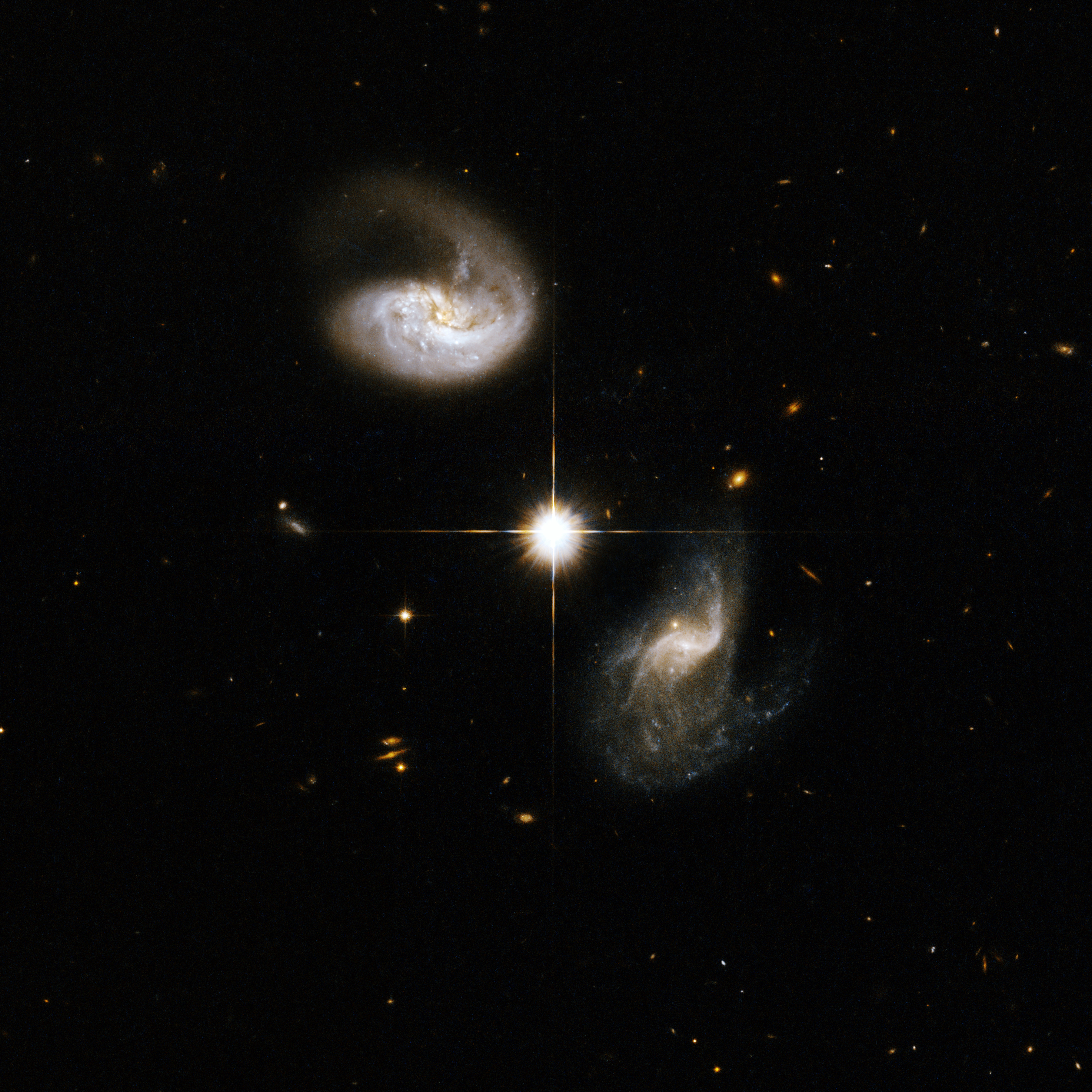 CGCG 436-030, the eye-catching spiral galaxy in the image, shows a very pronounced curling tail. The companion galaxy, located to the bottom-right of the image, displays an intricate structure, including a number of trails that extend quite far out from its core. The bright star that appears between the two galaxies does not belong to the interacting system and is located within the Milky Way. CGCG 436-030 is located in the constellation of Pisces, the Fish, about 400 million light-years away. This image is part of a large collection of 59 images of merging galaxies taken by the Hubble Space Telescope and released on the occasion of its 18th anniversary on 24th April 2008. About the objectObject nameCGCG 436-030, IRAS 01173+1405Object descriptionInteracting GalaxiesPosition (J2000)01 20 02.87 +14 21 44.7ConstellationPiscesDistance400 million light-years (100 million parsecs)About the dataData descriptionThe Hubble image was created using HST data from proposal 10592: A. Evans (University of Virginia, Charlottesville/NRAO/Stony Brook University)InstrumentACS/WFCExposure date(s)August 25, 2001Exposure time26 minutesFiltersF435W (B) and F814W (I)